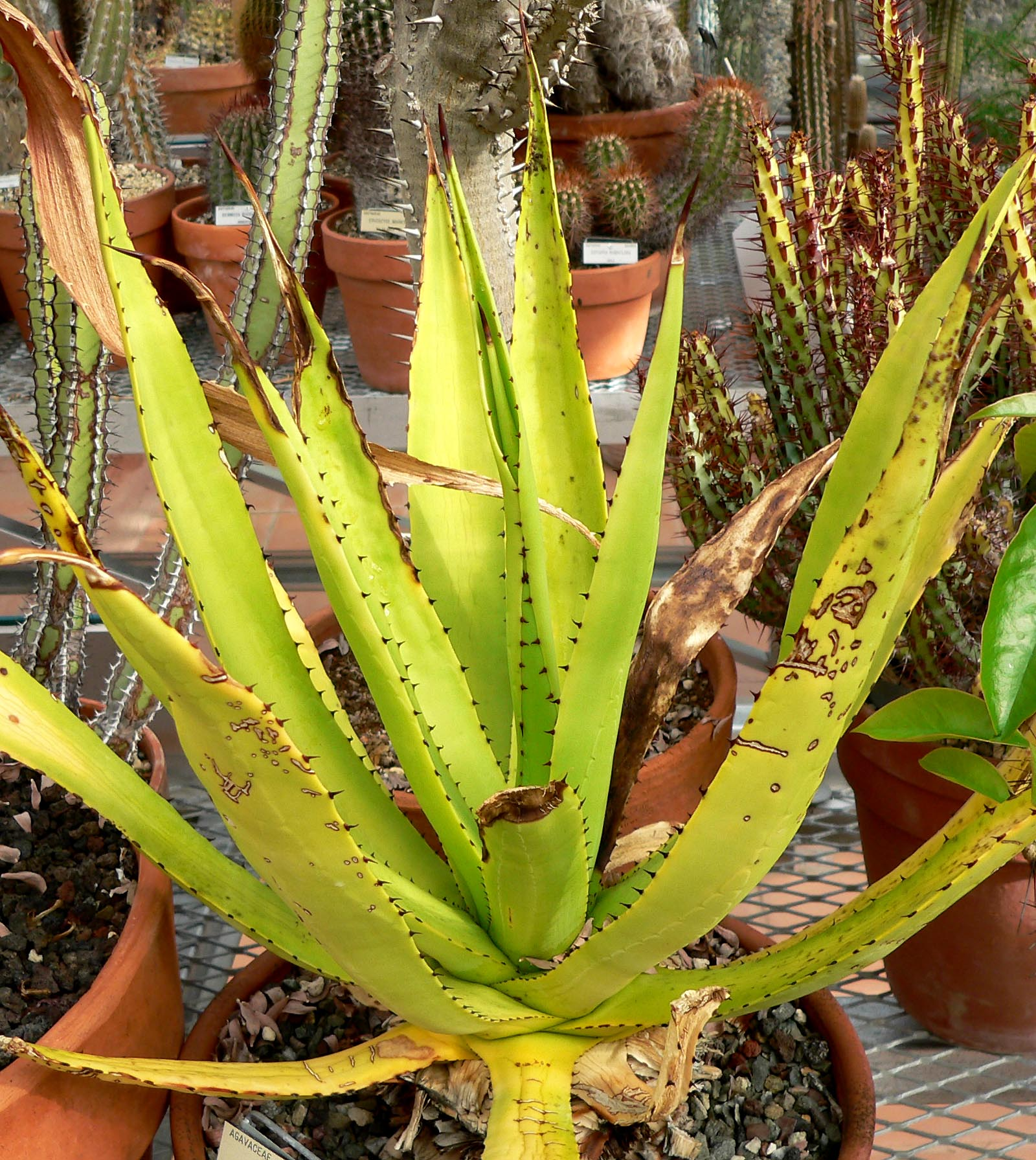 Photo of Agave missionum at the University of California Botanical Garden